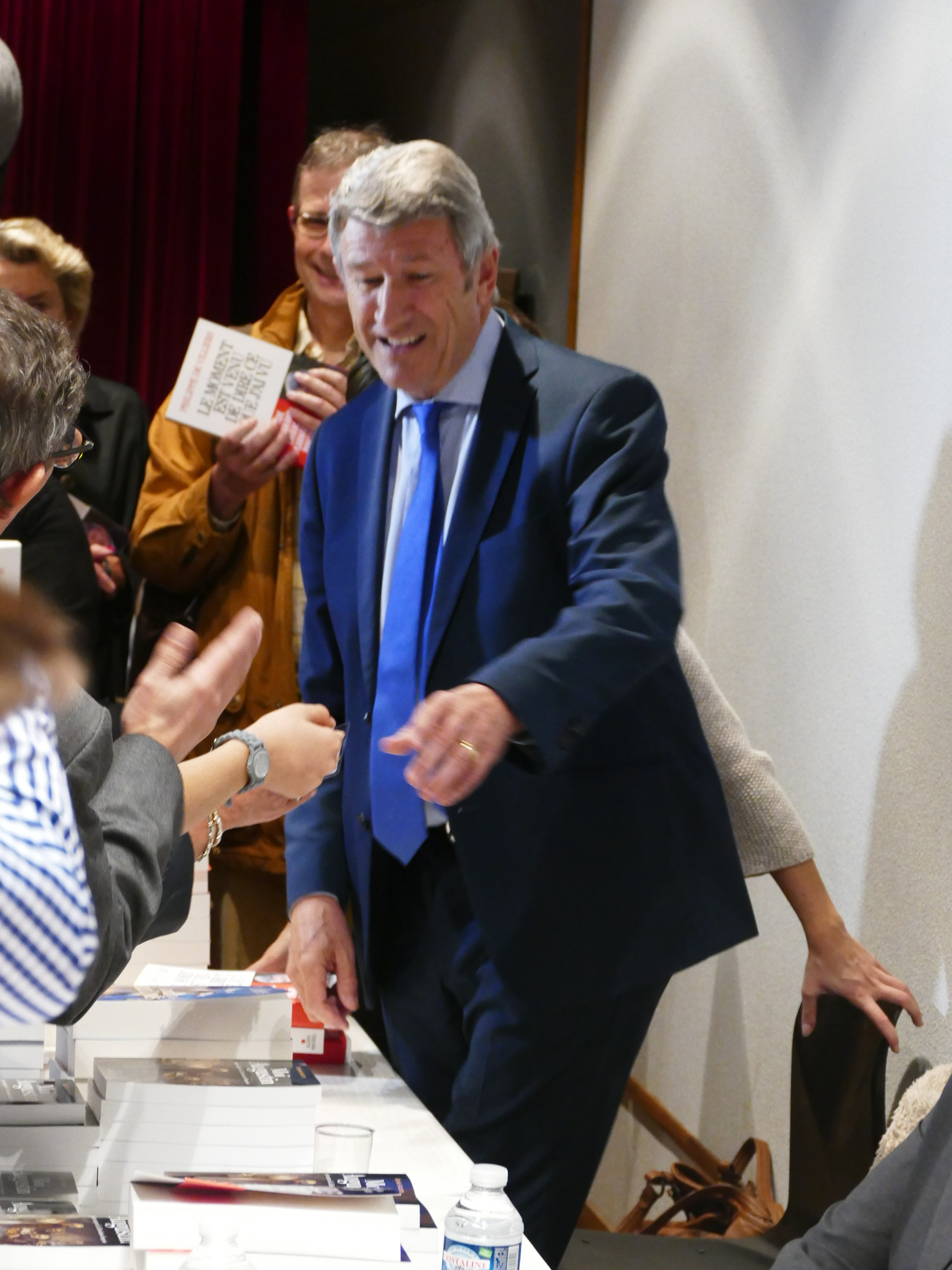 Philippe de Villiers at Salon du livre et de la famille in Paris (Île-de-France, France).